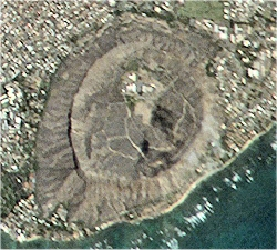 Aerial view of Diamond Head, Hawaii — from the International Space Station.